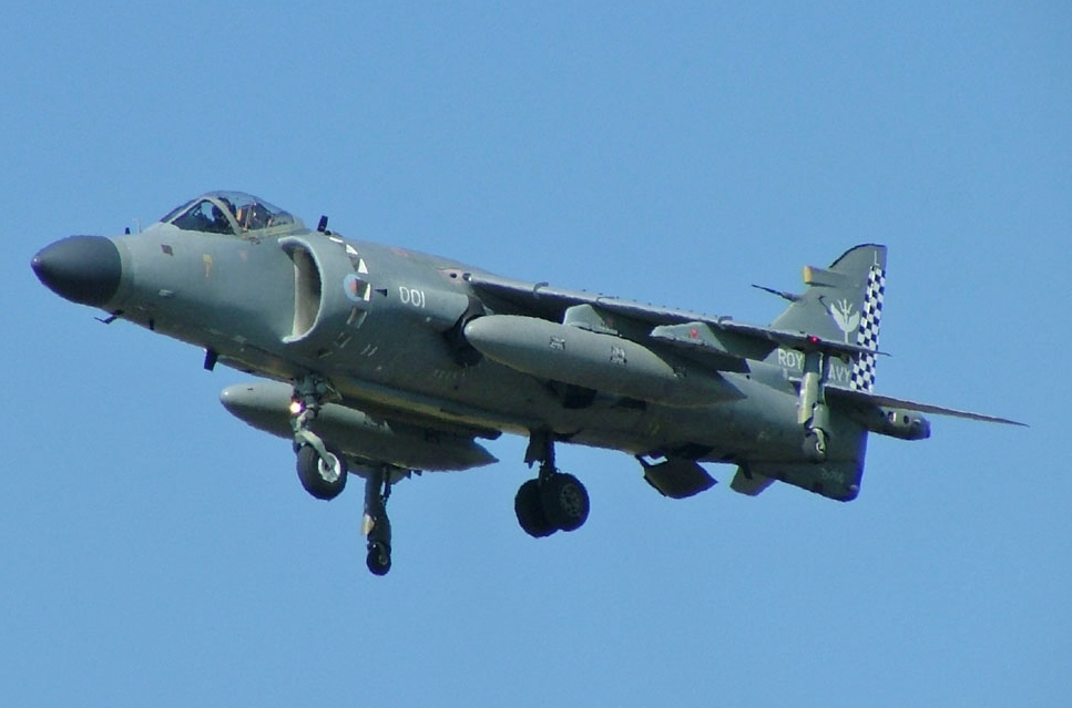 A British Royal Navy BAe Sea Harrier FA.2 of 801 Naval Air Squadron at the 2005 Royal International Air Tattoo